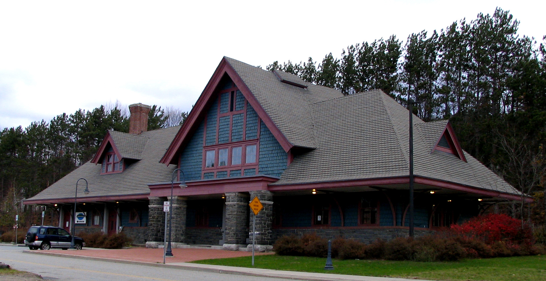 Adirondack Scenic Railroad - Front of Saranac Lake Station. Taken by User:Mwanner 6 November, 2007.